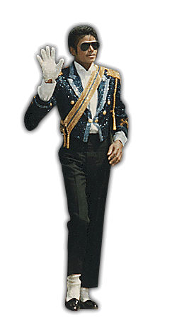 Pop singer Michael Jackson at the White House ceremony to launch the campaign against drunk driving.